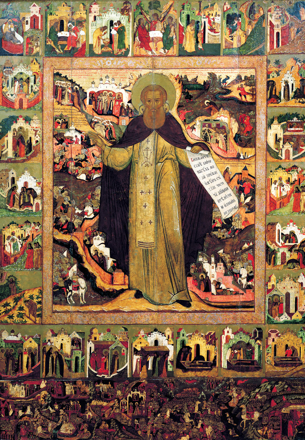 Sergius of Radonezh in his life